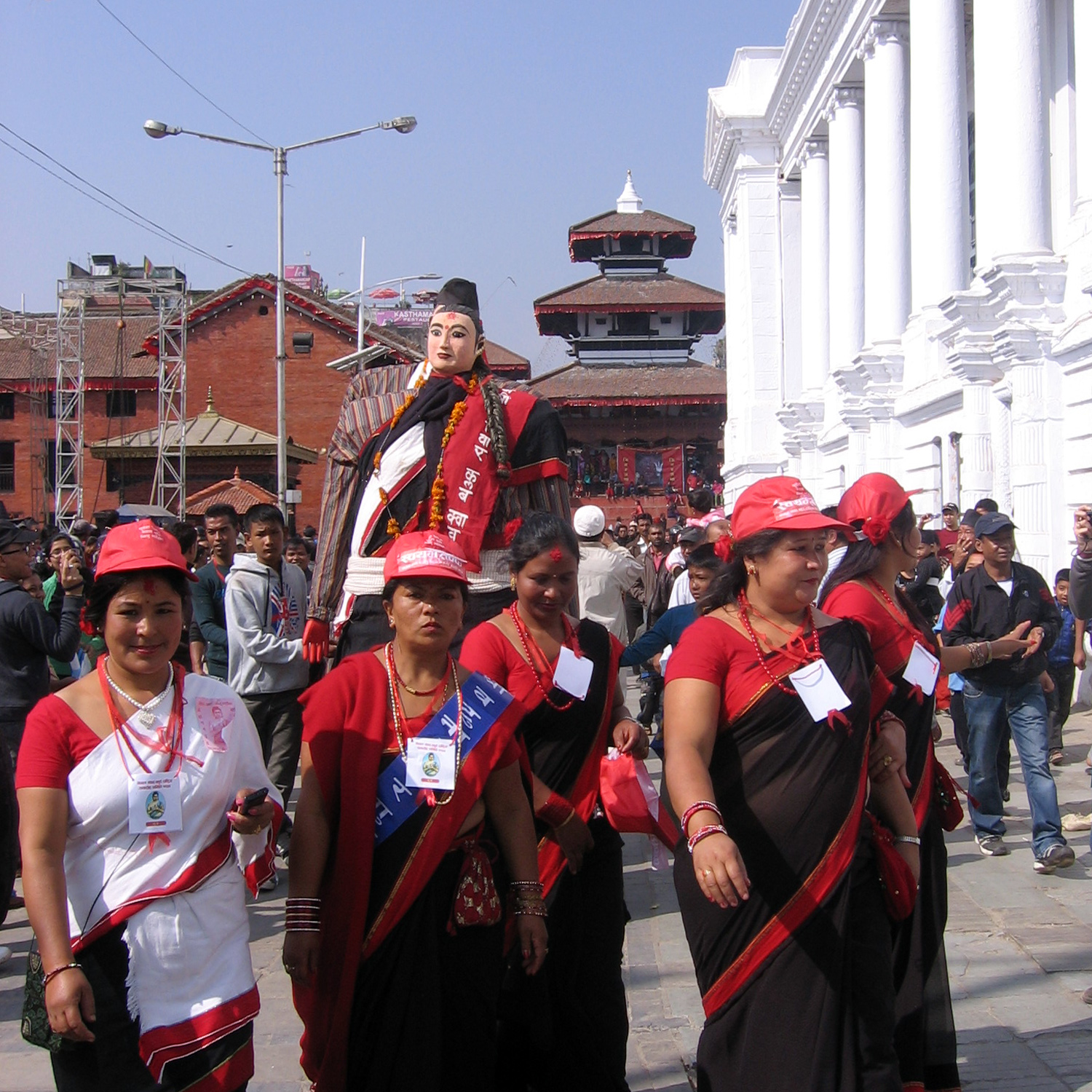 Women in Nepalese New Year's Day parade in Kathmandu.